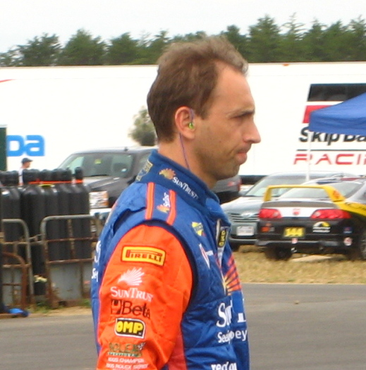 Max Angelelli at the New Jersey Motorsports Park